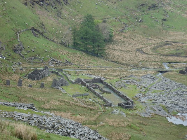 Disused Conglog Slate Quarry. At the head of Cwmorthin is a fine collection of ruins, there are pillars of slate, quarry buildings and the local farmers have created a lovely sheep pen in the remains of one of the larger buildings. Near Tanygrisiau, Wales.